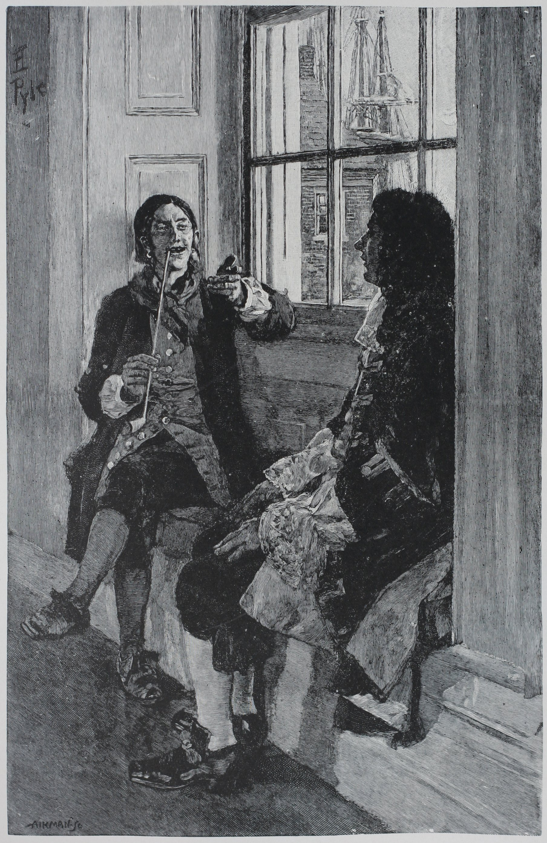 He Had Found the Captain Agreeable and Companionable: this was originally published in Janvier, Thomas (November 1894). "Sea Robbers of New York". Harper's Magazine.